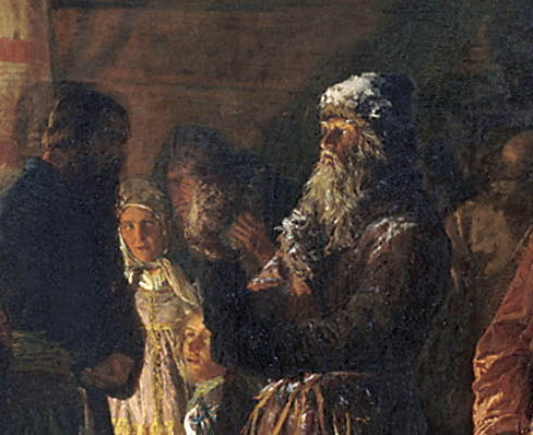 V. Maximov. A sorcerer comes to a peasant wedding. 1875